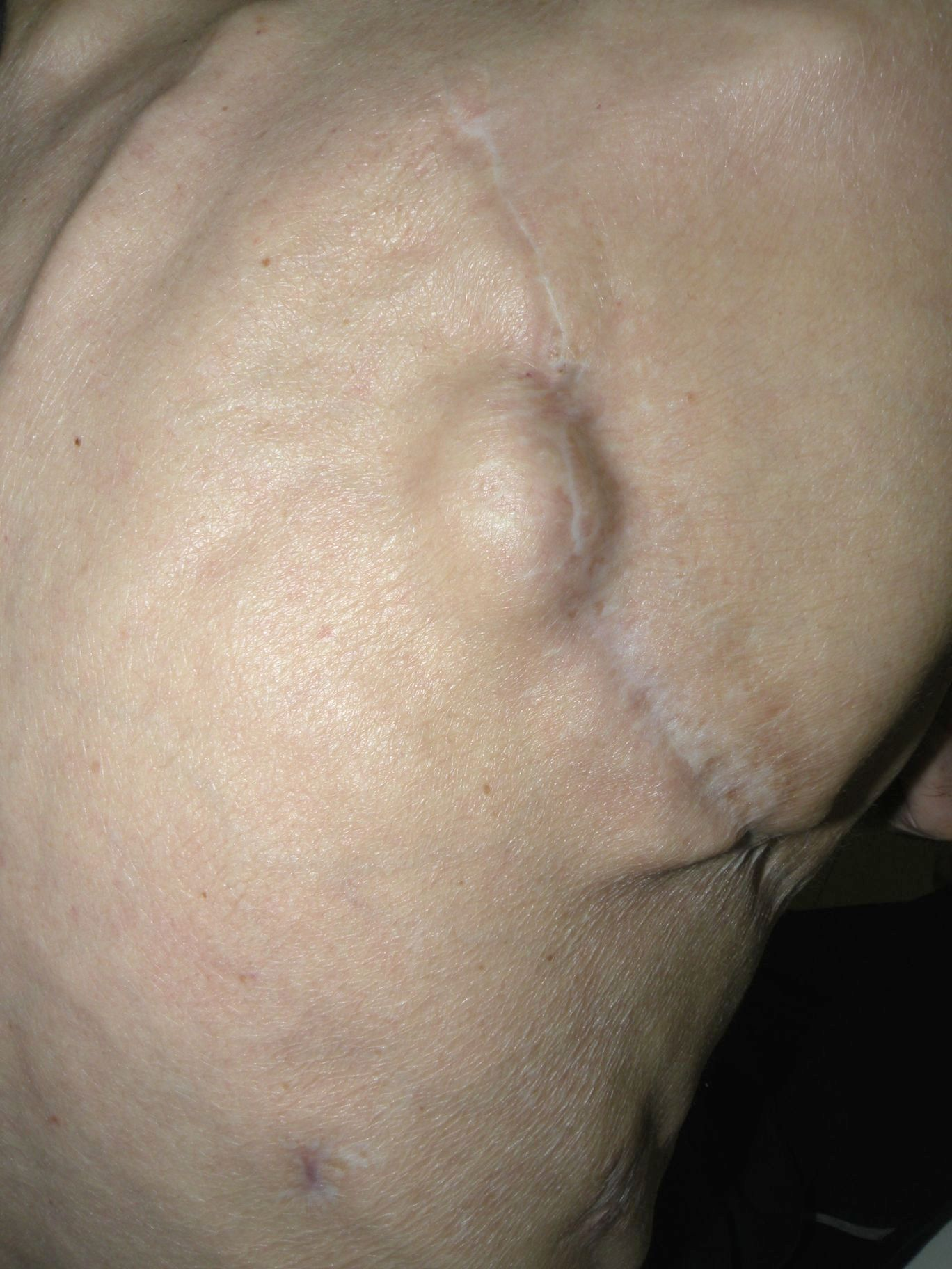 Post-thoracotomy lung herniation in emaciated patient